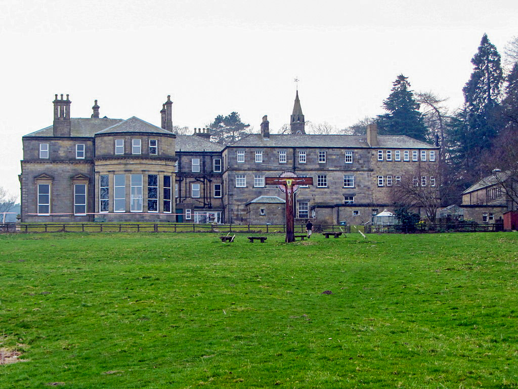 Minsteracres